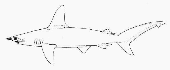 Sphyrna couardi